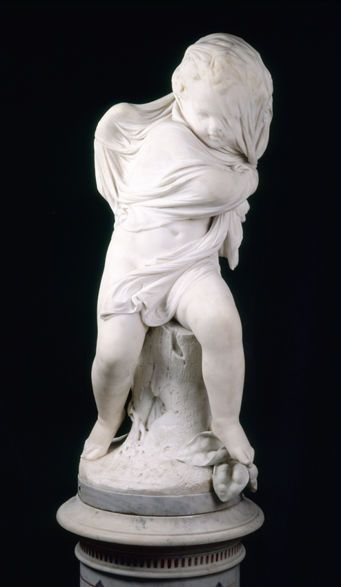 Secret love